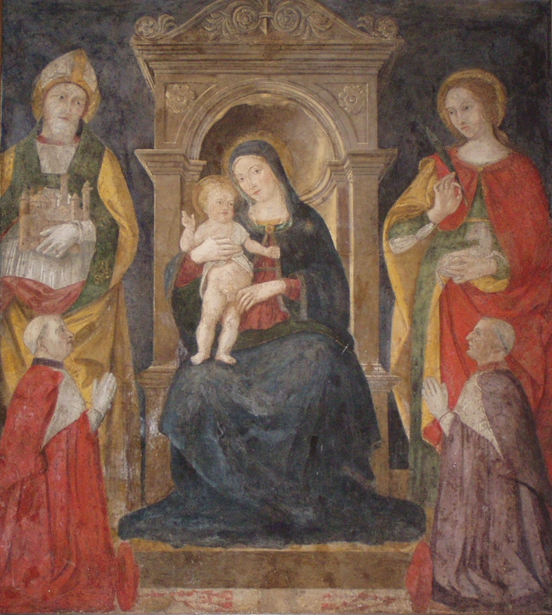 a fresco by Antoniazzo Romano (end of 15th century): Madonna with child between a saint bishop and Saint Agnes, with the Capranica brothers, cardinals